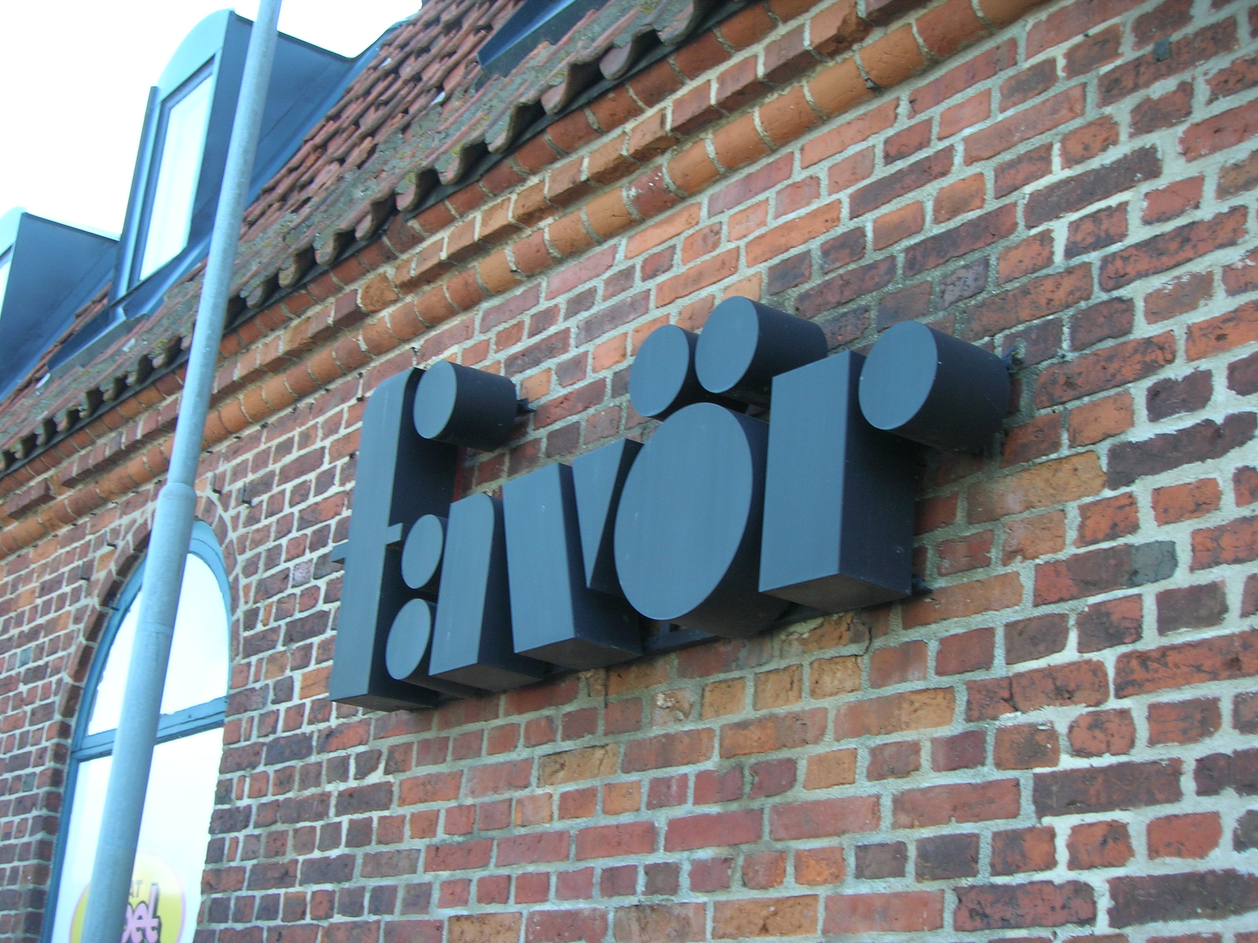 Sign outside a Supermarket in Skillinge.